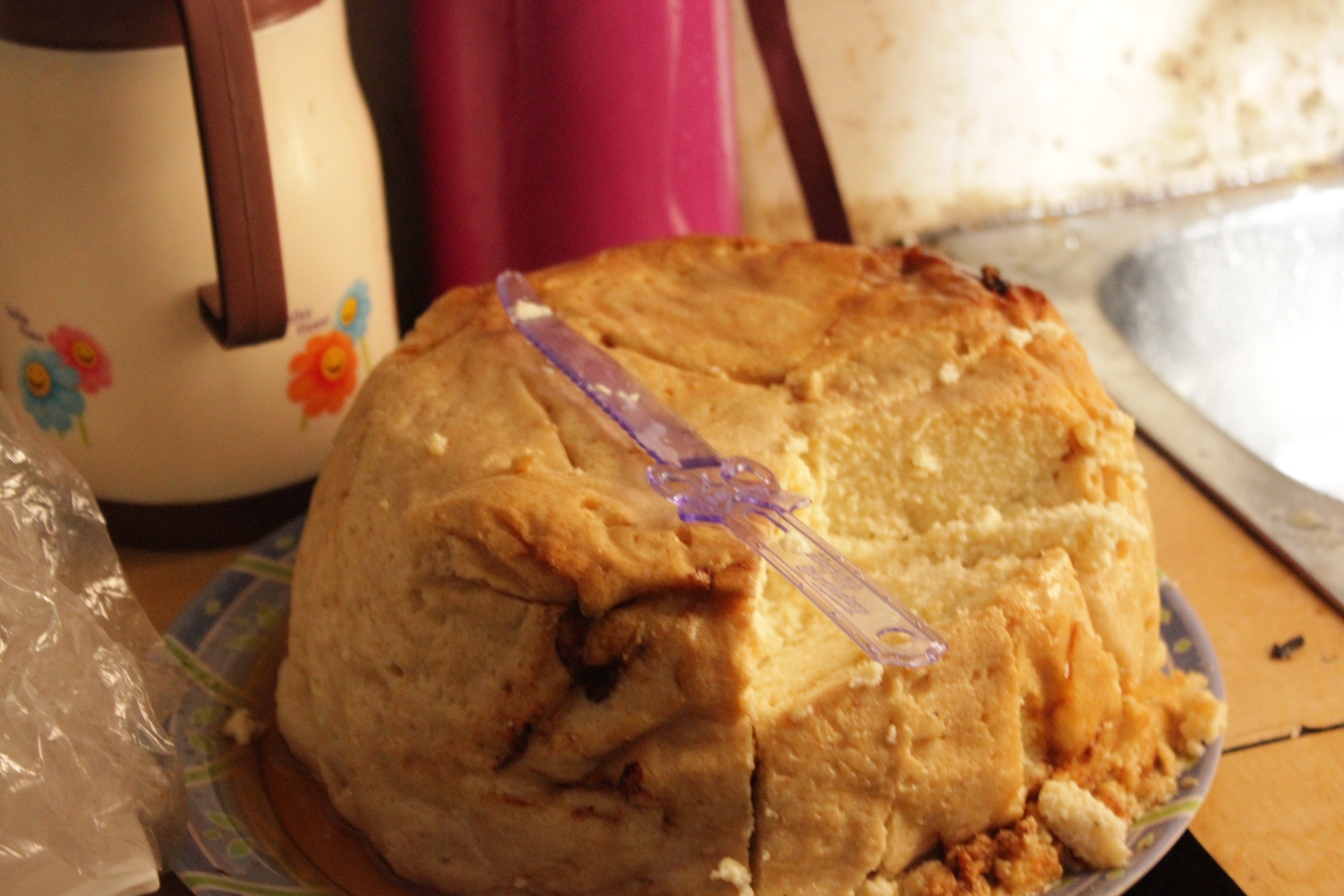 9th Anniversary of Odia Wikipedia celebration at Bhubaneswar, Odisha, India.